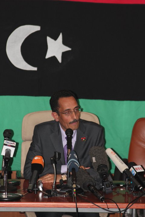 Libya's NTC Deputy Chairman Abdelhafed Ghoga told Magharebia that the revolutionaries were seeking armaments and other assistance from Arab states